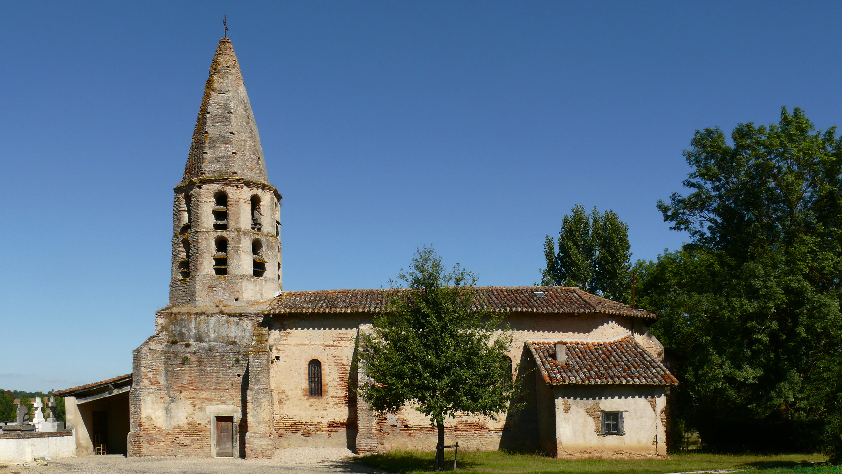 Church in Quercy, France